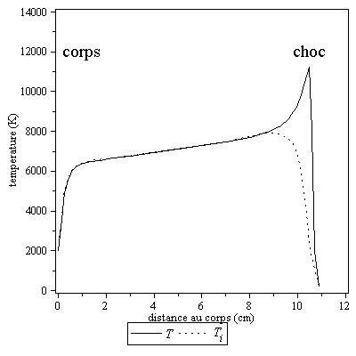 Temperatures profiles during reentry